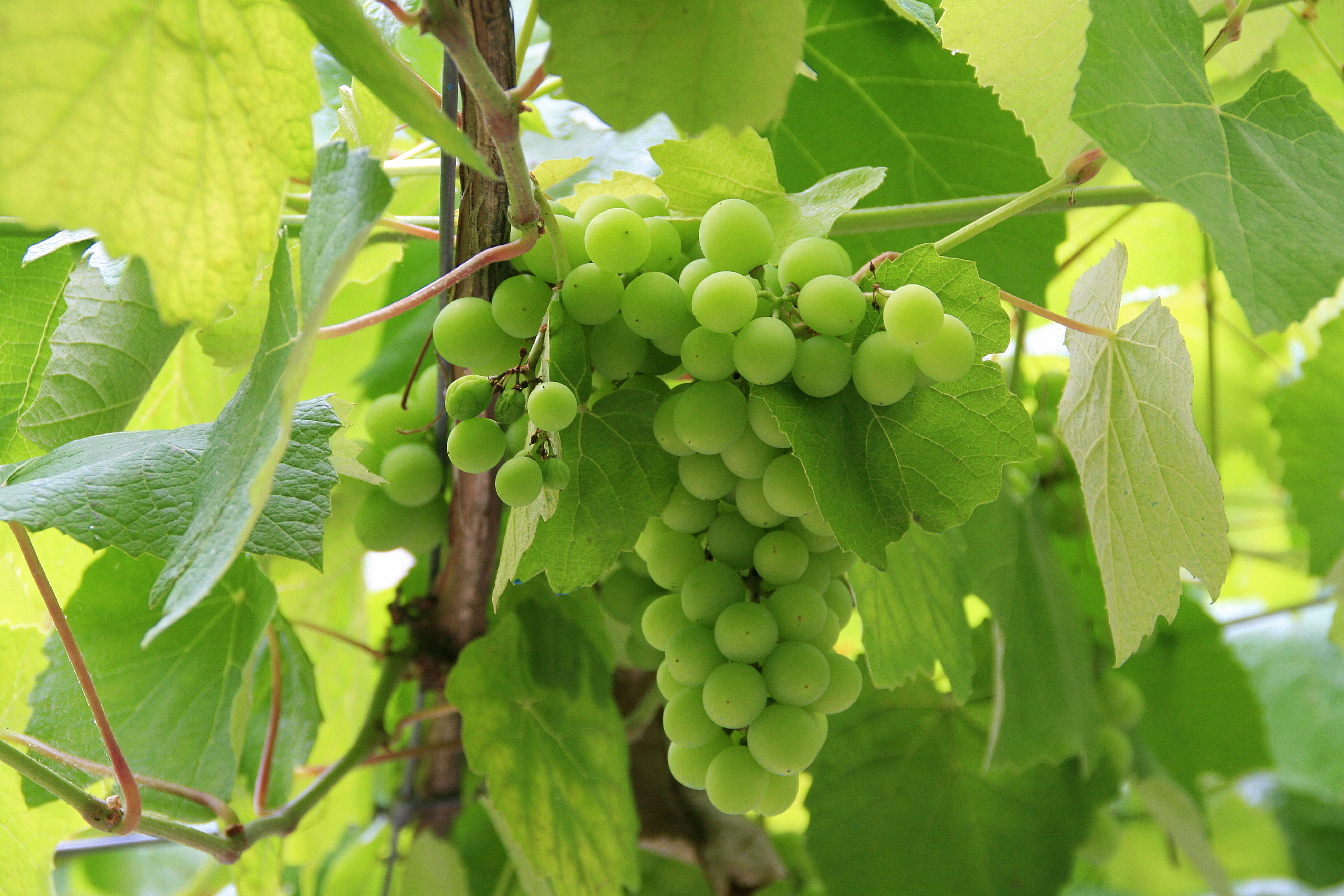 Albarino grapes in mid july growing in the Galician region of Spain before veraison has taken place.